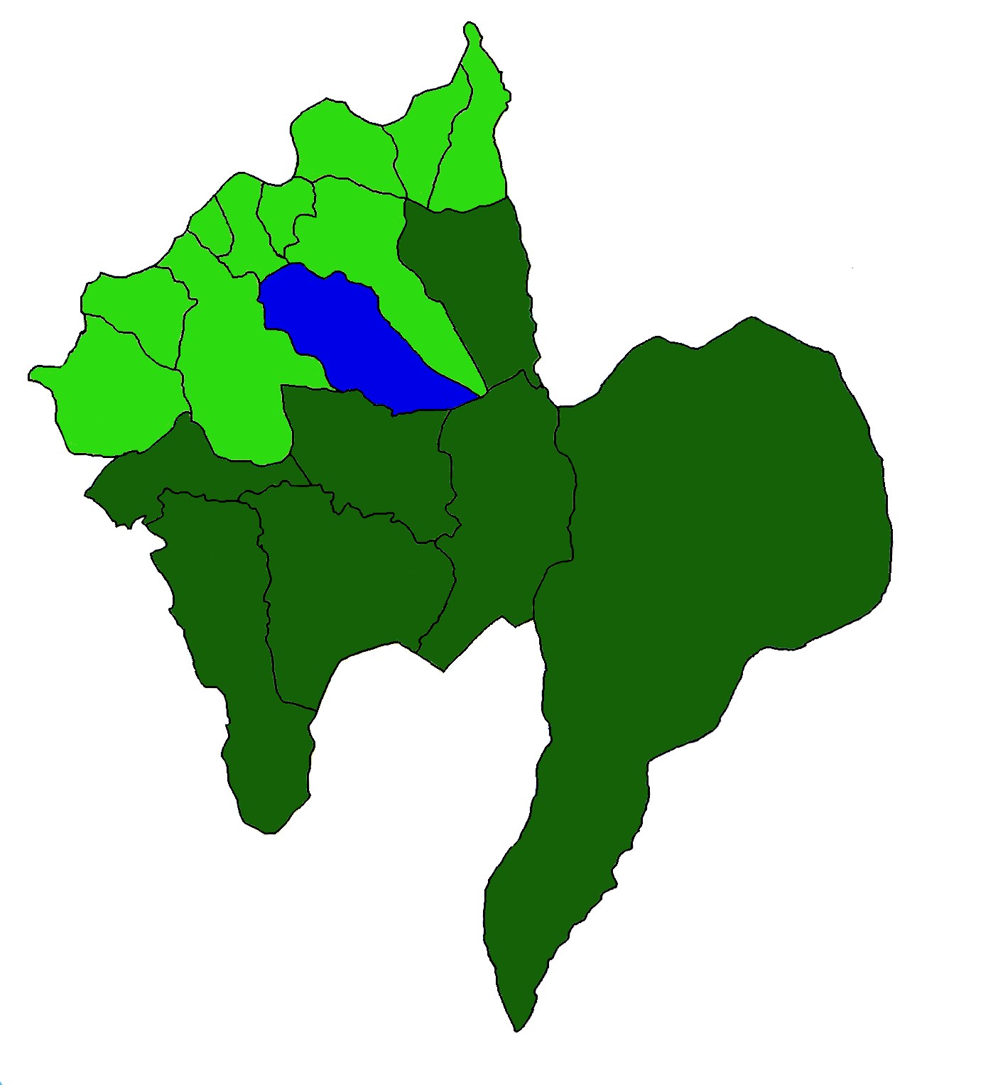 Map os São Paio in Melgaço, Portugal